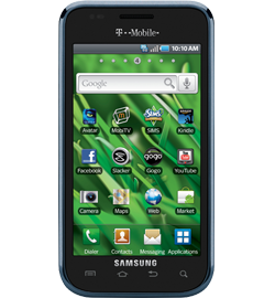 Photo of Samsung Vibrant